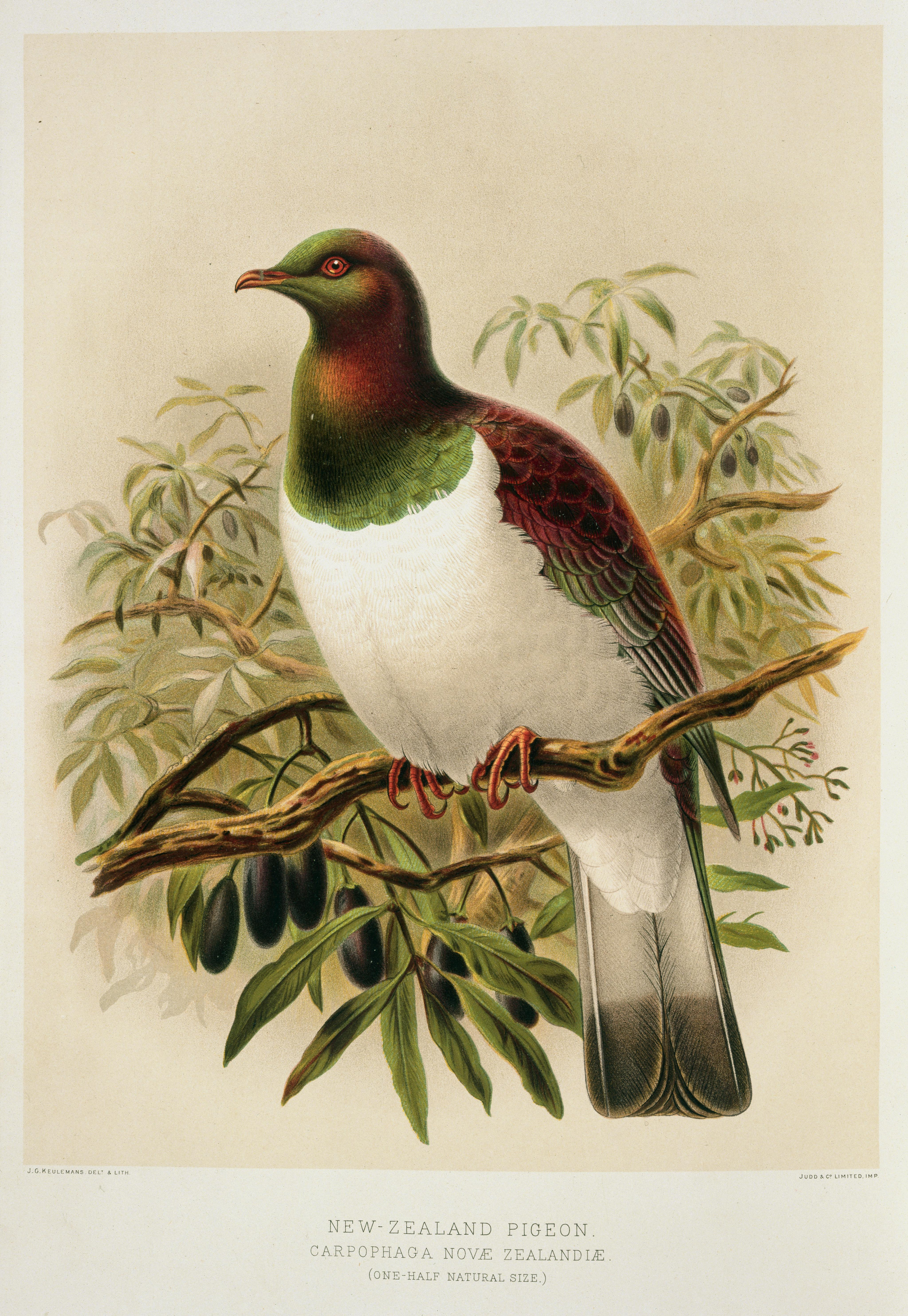 Shows wood pigeon or kereru, sitting on tawa tree. Inscriptions: Inscribed - Recto - bottom right: Judd & Co. Limited, Imp.. Quantity: 1 colour art print(s) in book.. Physical Description: Lithograph, coloured 274 x 206 mm. Keulemans, John Gerrard, 1842-1912. Keulemans, John Gerrard 1842-1912 :New Zealand pigeon. Carpophaga Novae Zealandiae. (one-half natural size). / J. G. Keulemans delt. & lith. [Plate XXIV. 1888].. Buller, Walter Lawry (Sir) 1838-1906 :A history of the birds of New Zealand. 2d ed. London, John van Voorst, 1888.. Ref: PUBL-0012-24. Alexander Turnbull Library, Wellington, New Zealand.